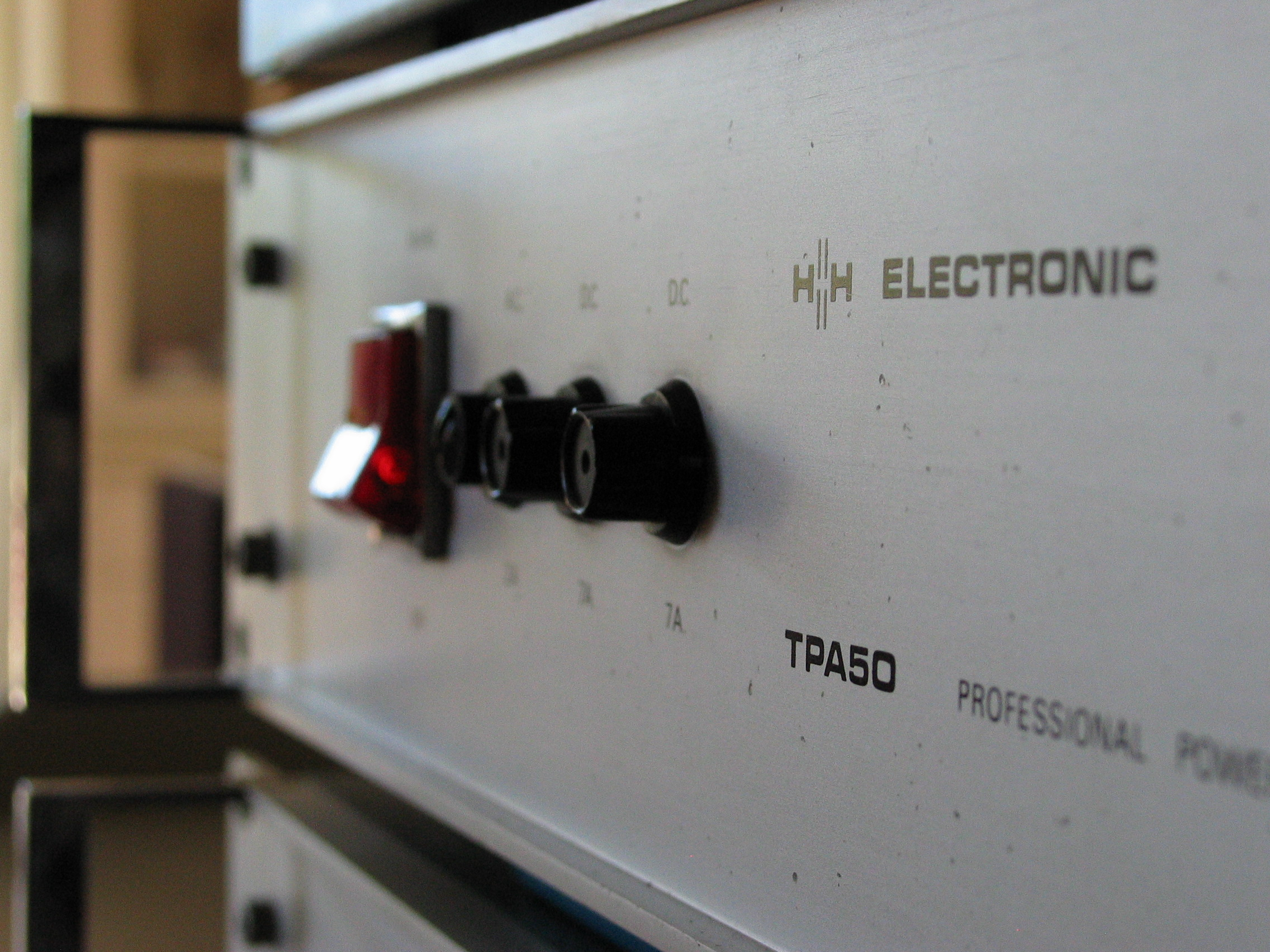 H-H Electronics TPA50 Professional Power Amplifier manufactured in Cambridge, UK during the 1970s. Photo shows close-up of front panel with AC and DC fuses.